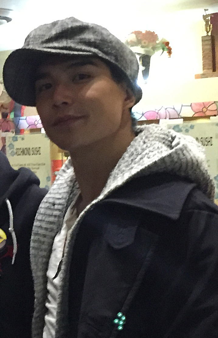 Cropped verison of